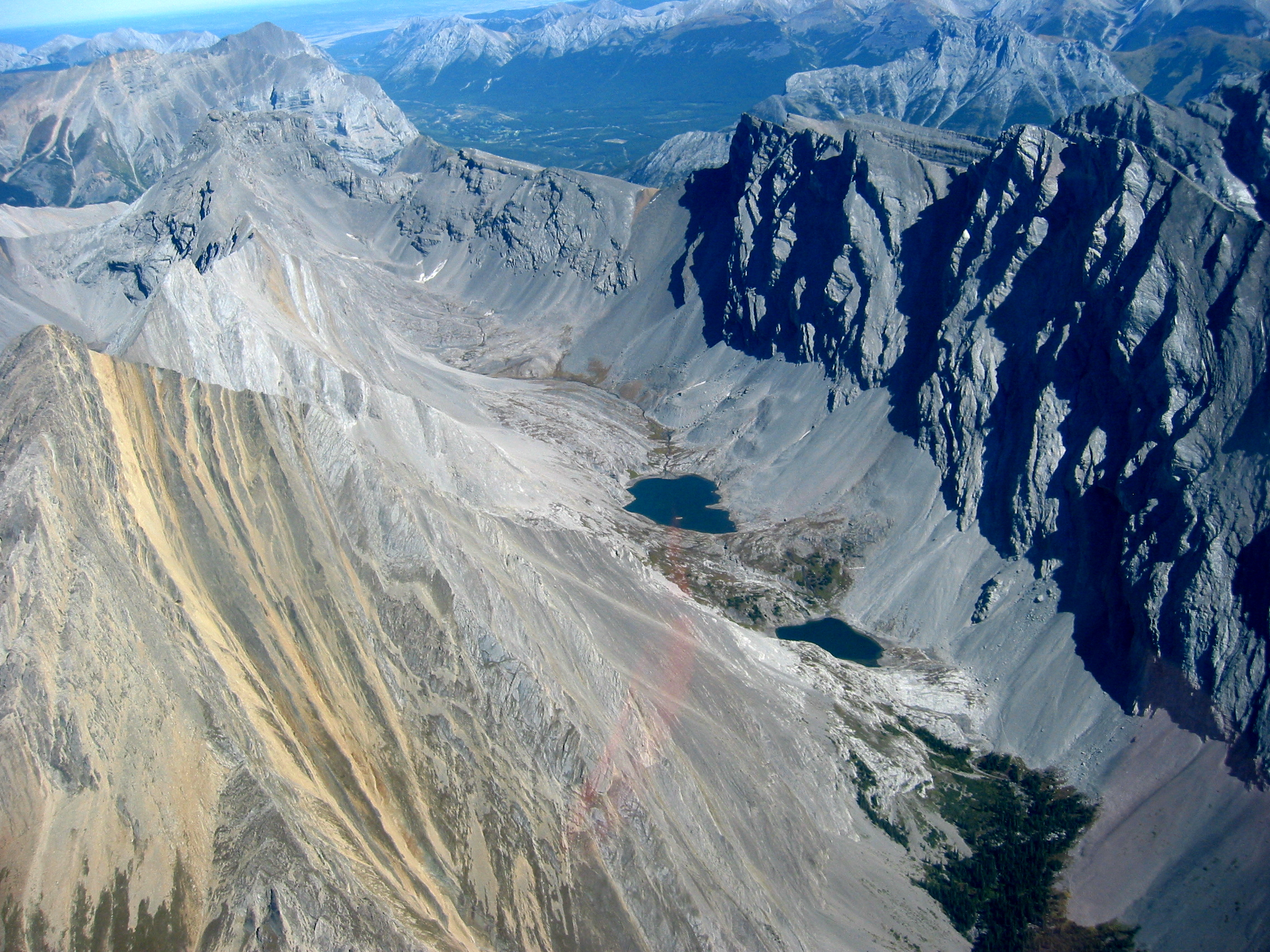 The Headwall Lakes valley. Mount Chester is in the bottom left foreground. The Fortress is at the end of the Mount Chester ridge. The Kananaskis golf course can be seen in the background as can The Wedge in the top right.